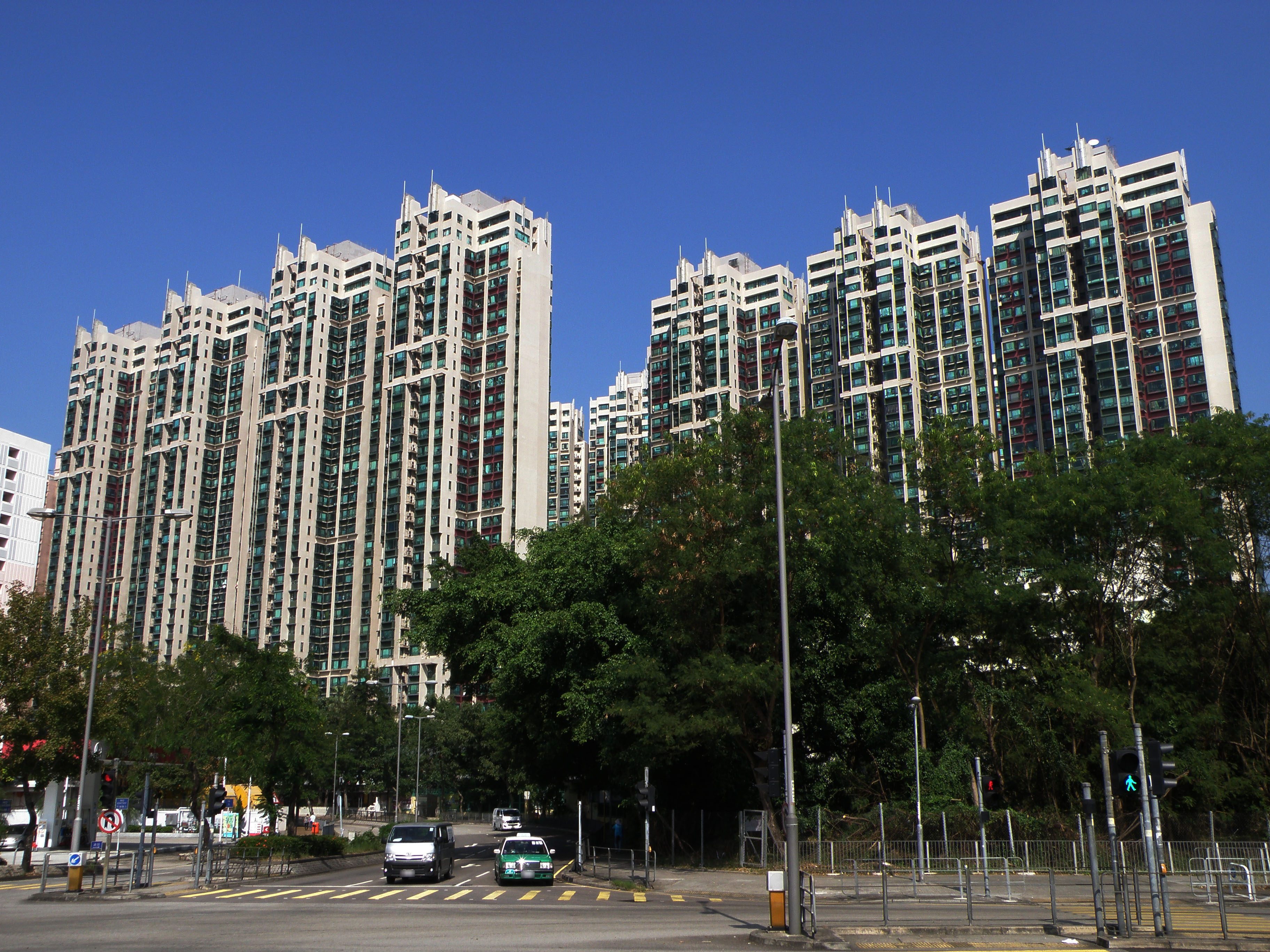 Dawning Views in Fanling, Hong Kong.